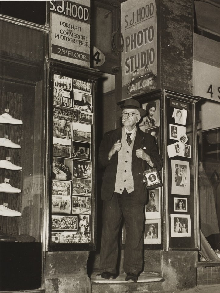 Taken just three weeks before his death Format: Photograph Notes: Find more detailed information about this photograph: .au/item/itemDetailPaged.aspx?itemID=52721 Search for more great images in the State Library's collections: .au/search/SimpleSearch.aspx From the collection of the State Library of New South Wales